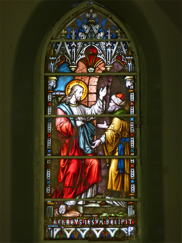 Church of the Good Shepherd, Jericho, Palestine. "Zacchaeus receives Jesus".